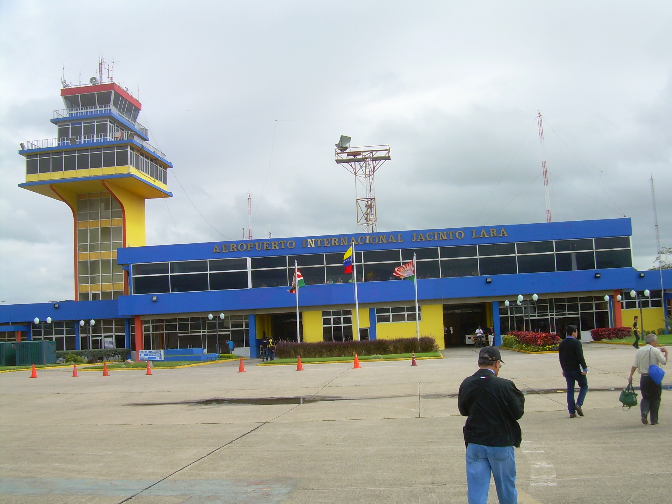 Terminal building and control tower of Jacinto Lara International Airport. Barquisimeto, VenezuelaLadino: Fragua de la terminal i kulá de kontrolo del Ayroporto Internasional "Jacinto Lara" de Barquisimeto, Venezuela